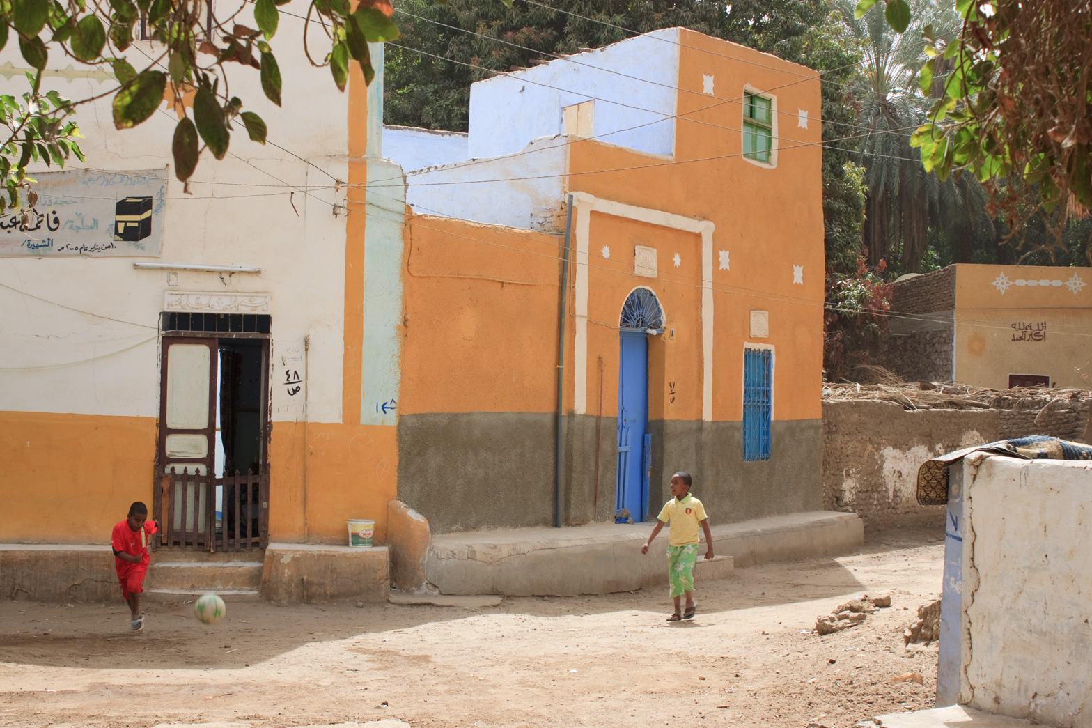 Nubian Village on Elephant Island